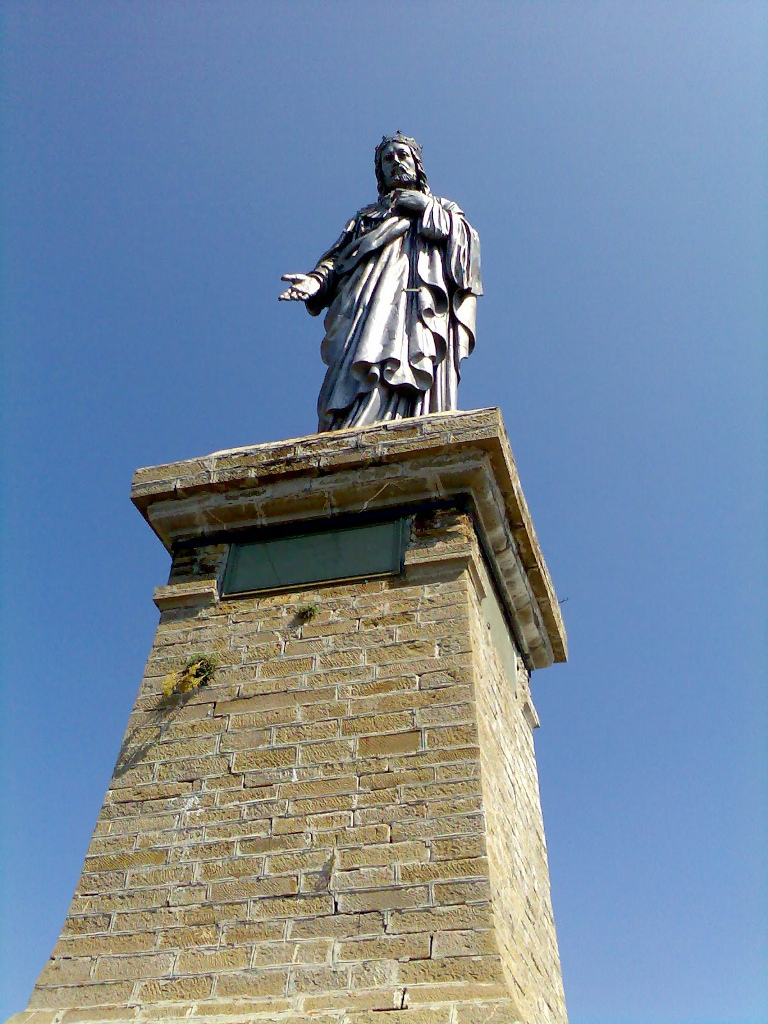 The big bronze statue with pedestal (overall height about 11m) of Christ Redeemer (1901), near the top of Mount Saccarello, Liguria, Italy